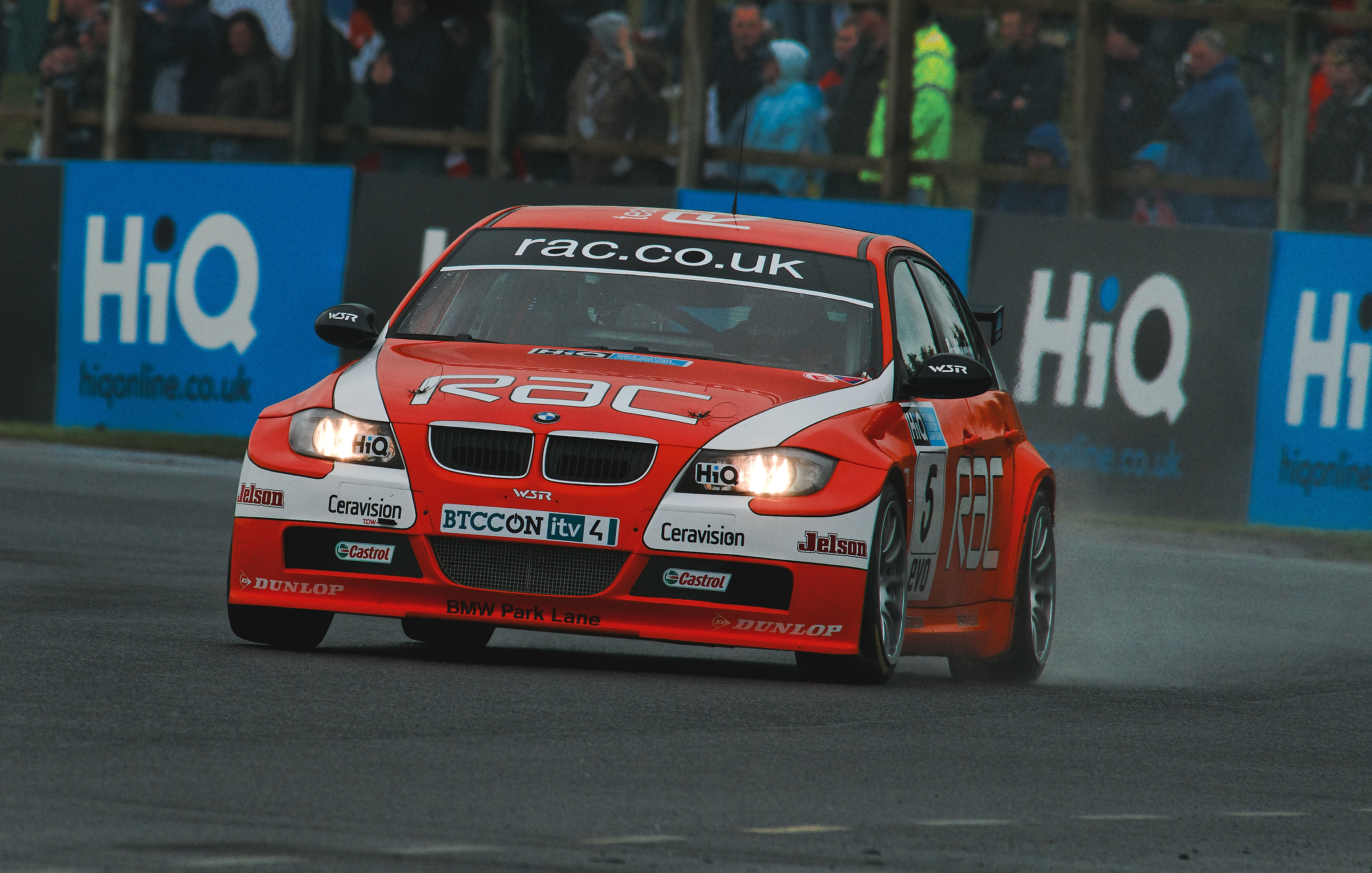 Colin Turkington driving a BMW at the Croft round of the 2008 British Touring Car Championship.